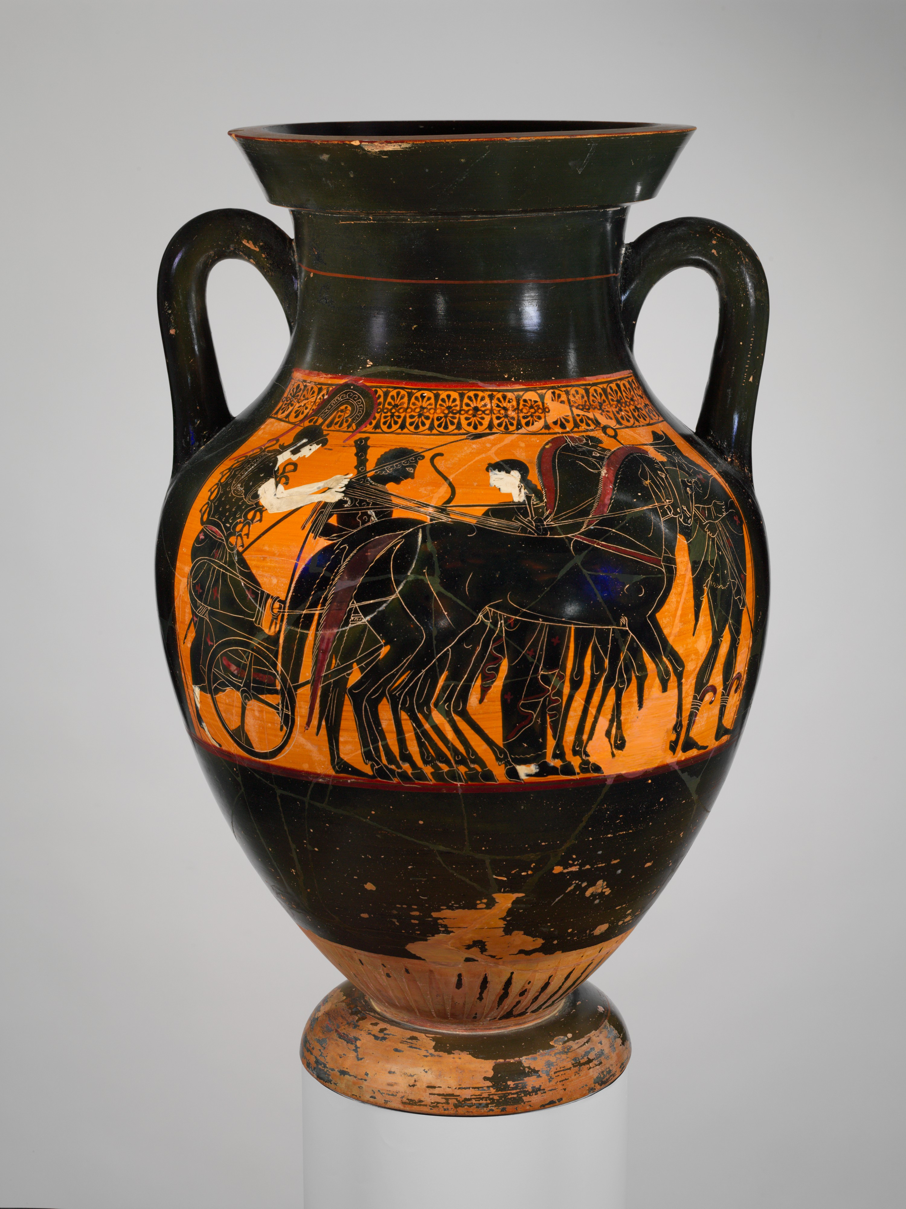 Greek, Attic; Amphora, Type B; Vases; Obverse, Athena mounting chariot, with Herakles and gods; Reverse, warriors' departure